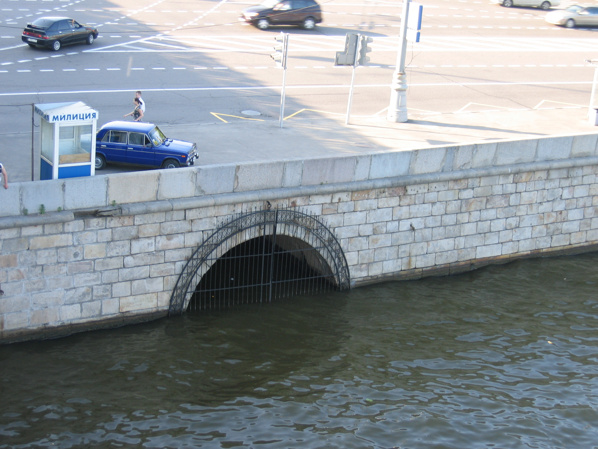 Neglinnaya River mouth from the collector